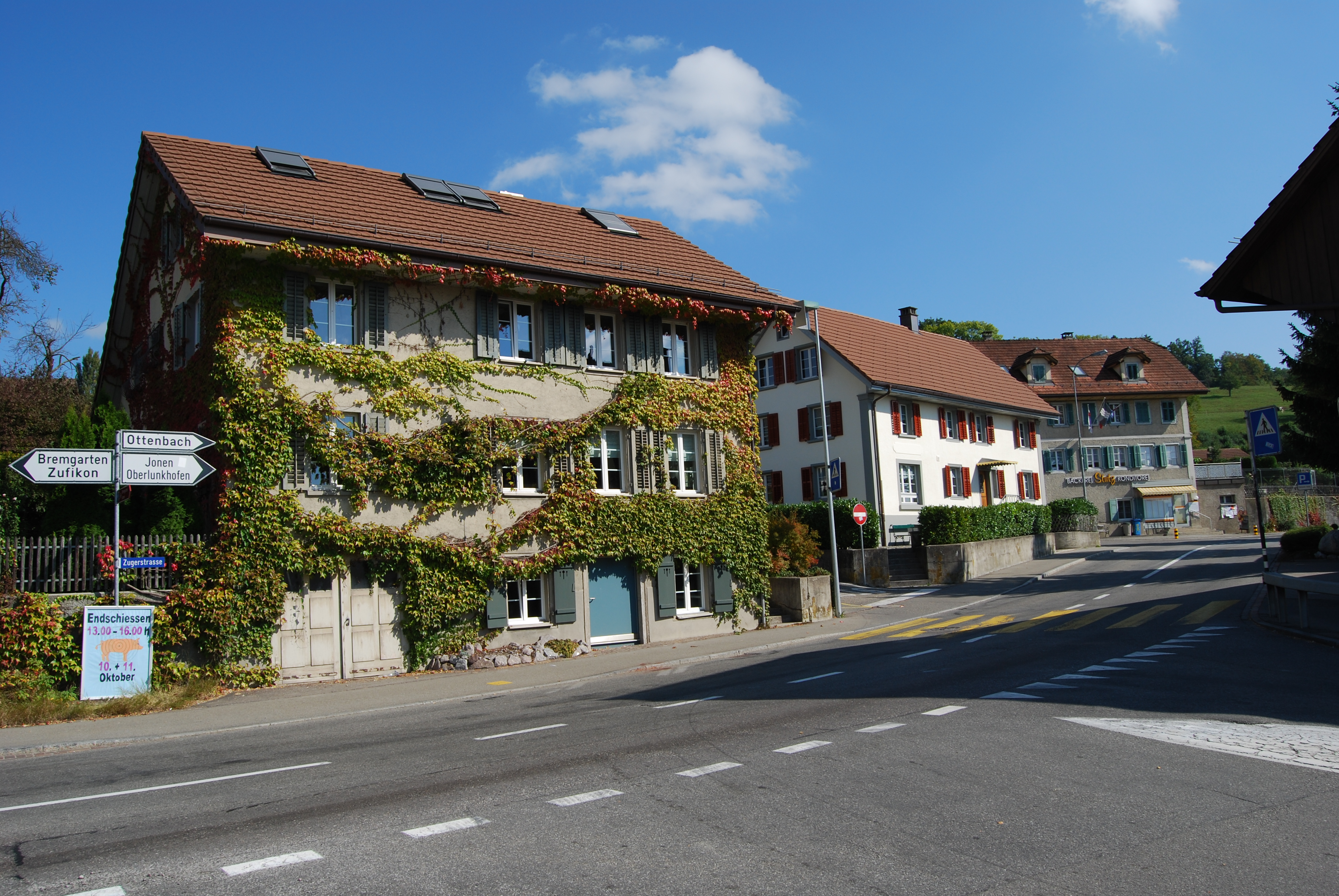 Unterlunkhofen, canton of Aargau, SwitzerlandEsperanto: Unterlunkhofen, Kantono Argovio, Svislando